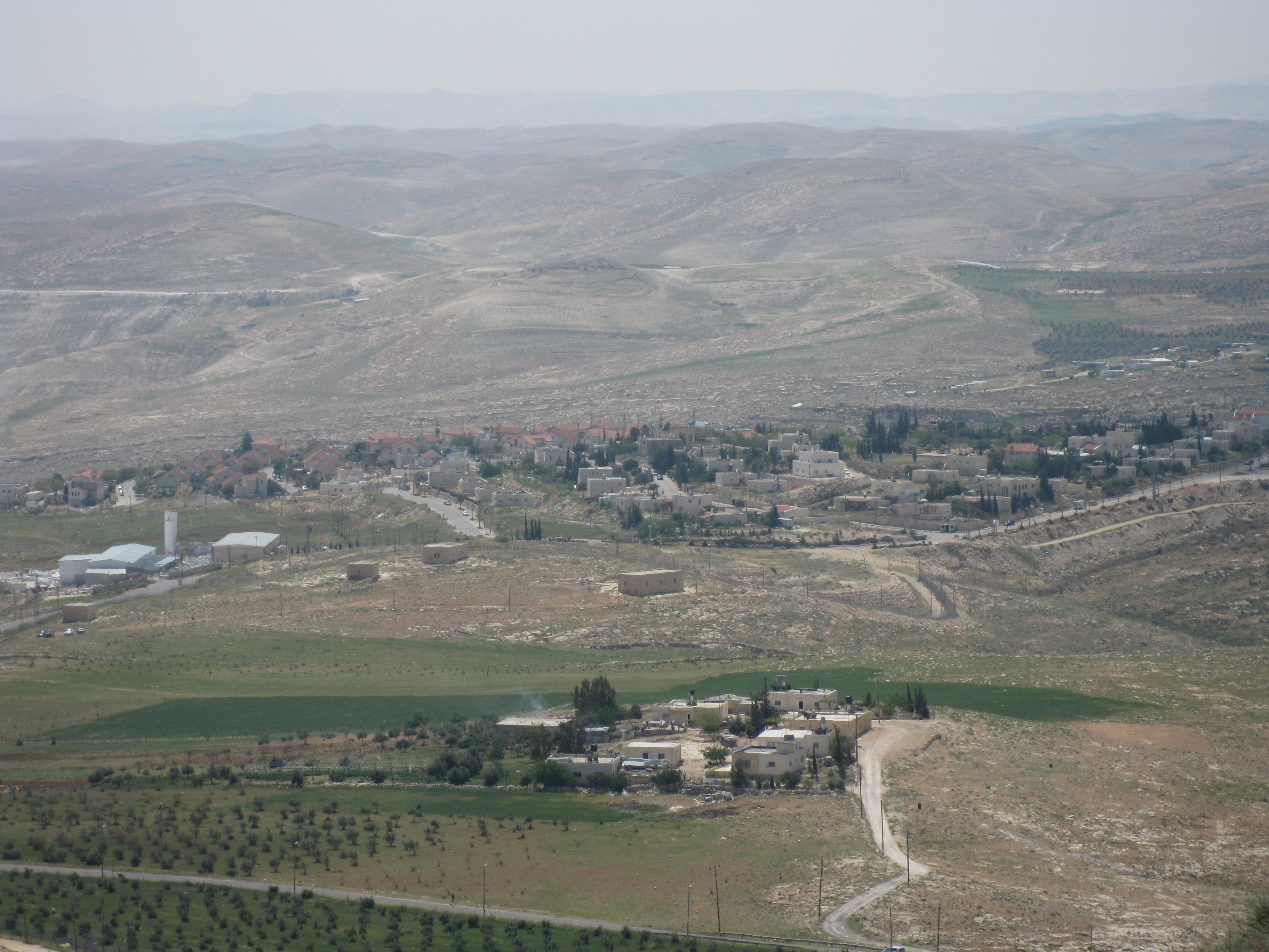 Views from Herodion (Herodyon, Herodium) - Nokdim מבט מהרודיון - נוקדים